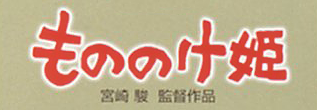 Mononoke-hime (もののけ姫) logo.